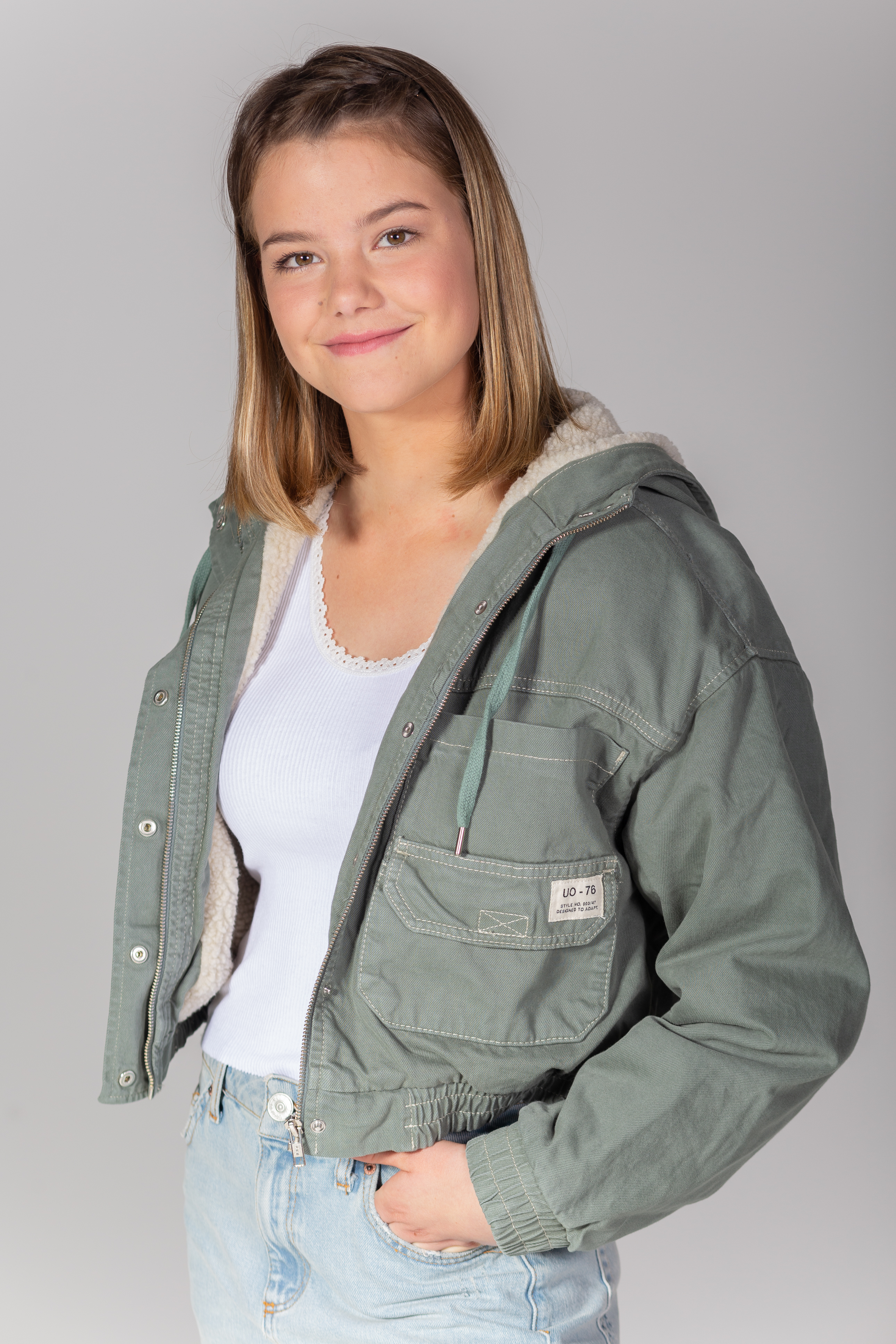 TV, ARD, cast "Rote Rosen"; Clara Apel